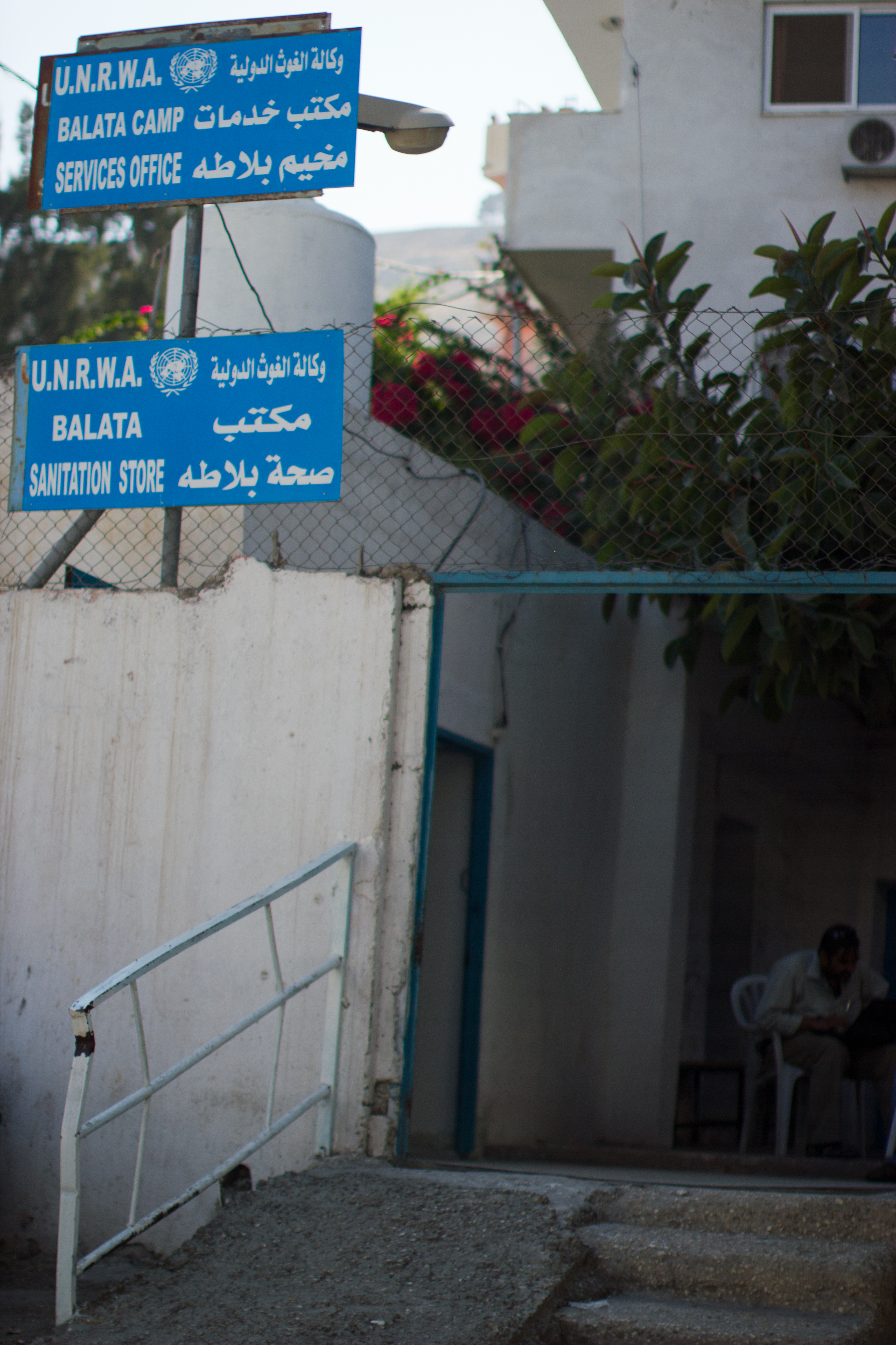 Nablus UNRWA Sanitation